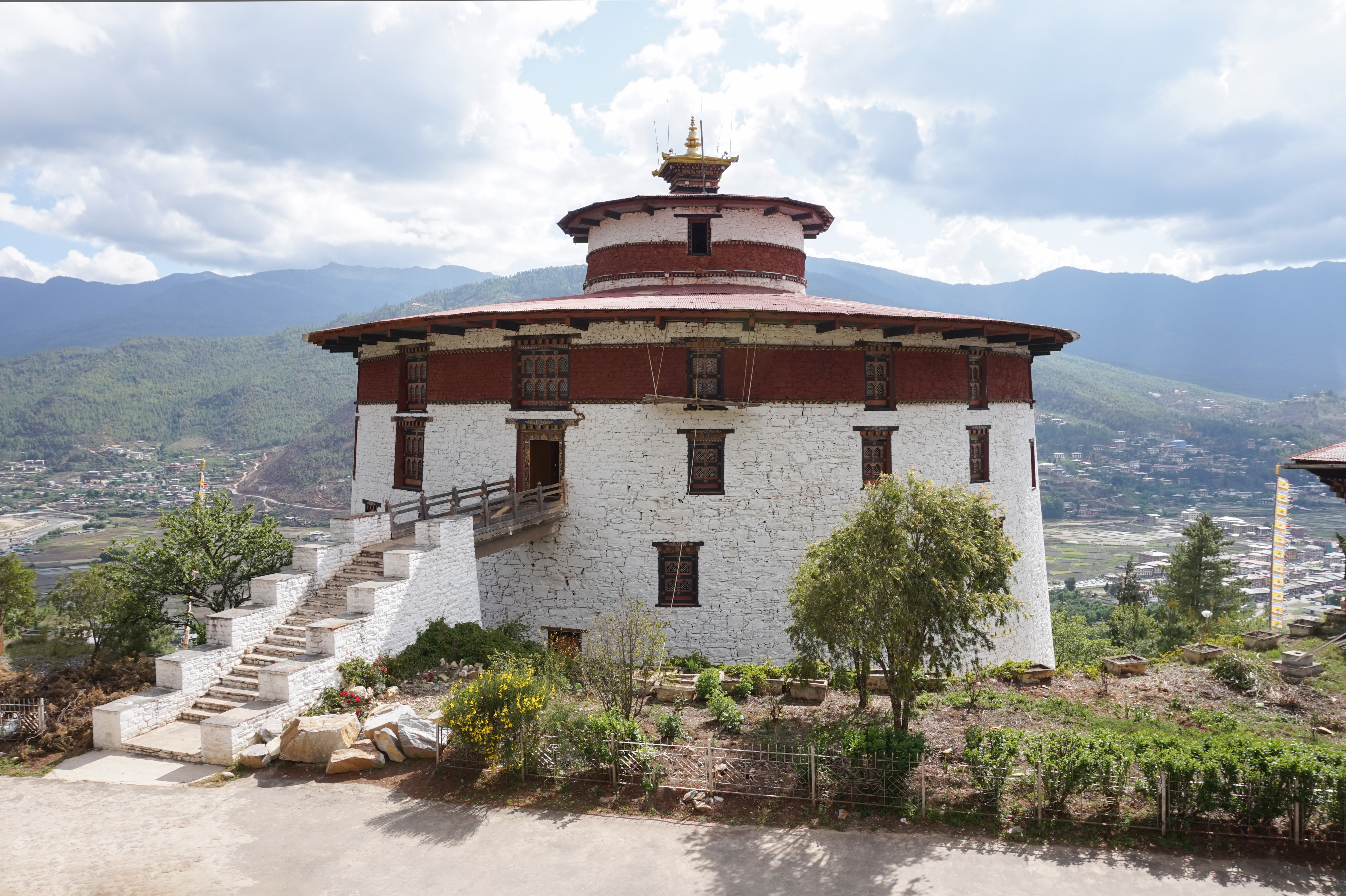 National Museum of Bhutan (former Ta Dzong), Paro, Bhutan